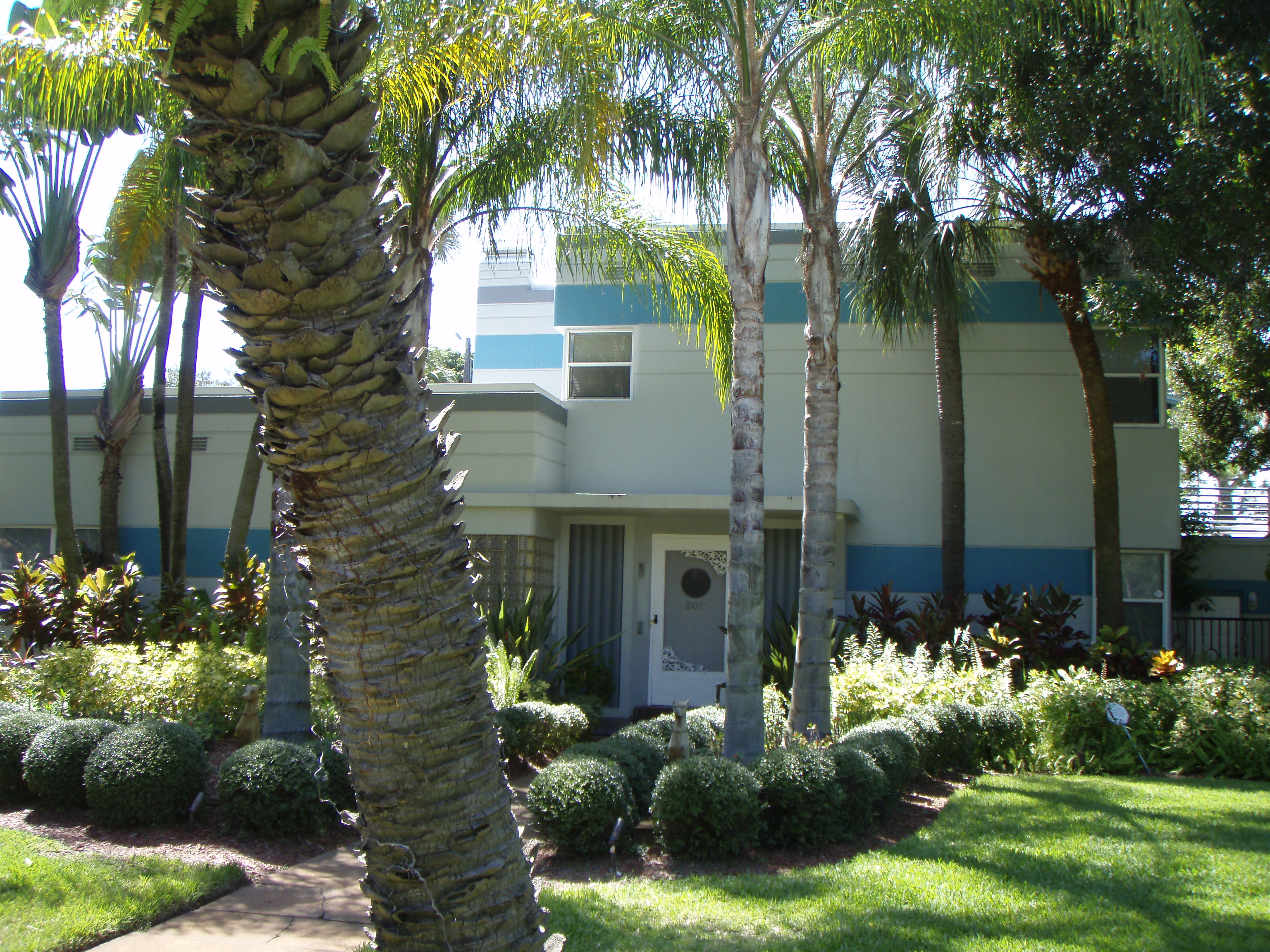 John & Florence McKeage House